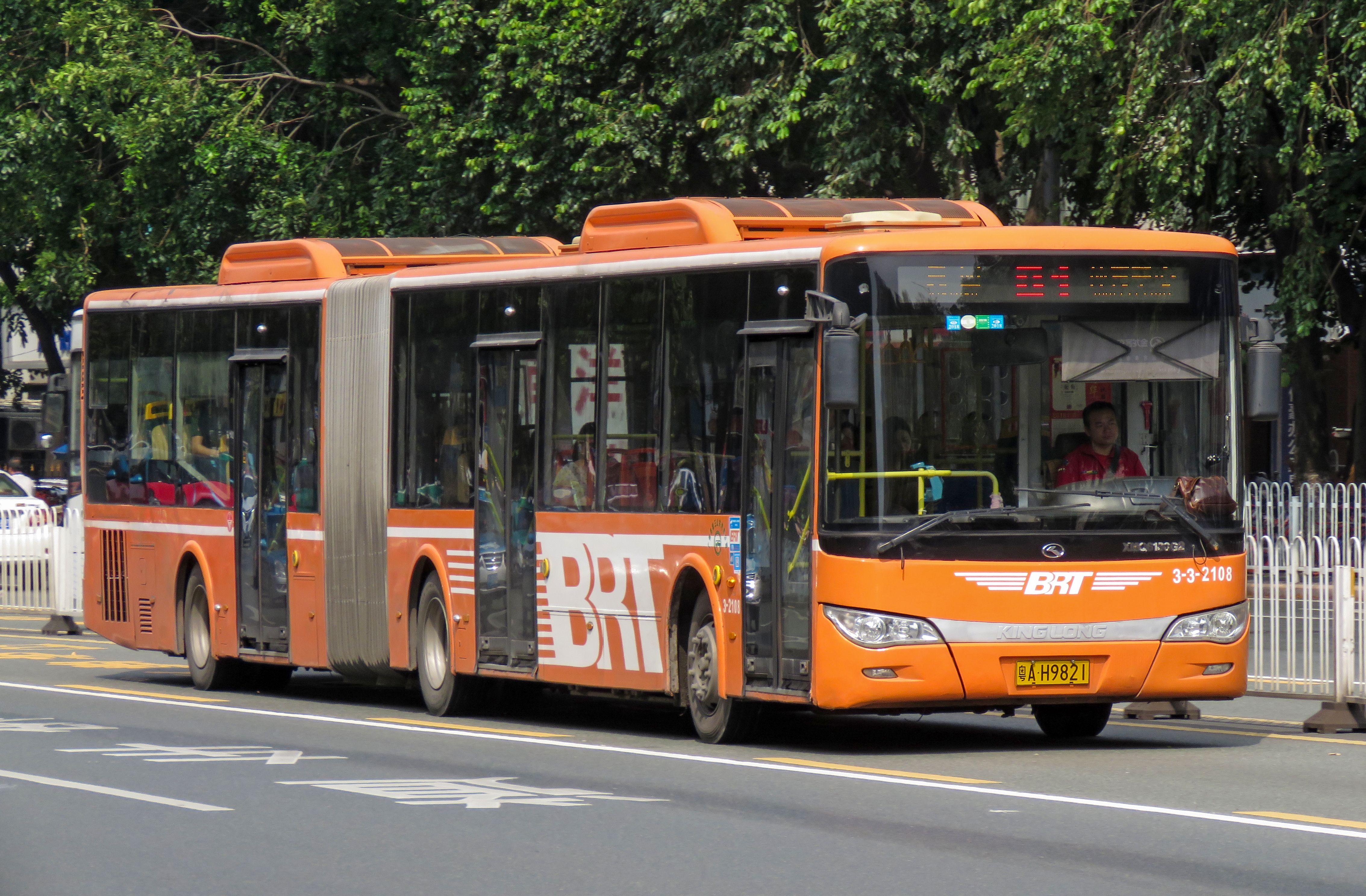 XMQ6180G2 between Chebei and Dongpu.